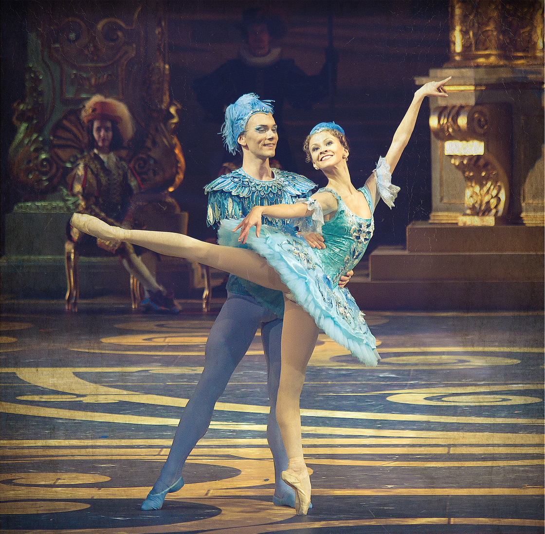 Vyacheslav Lopatin and Anastasiya Stashkevich. Sleeping Beauty. Bolshoi theater, 2011